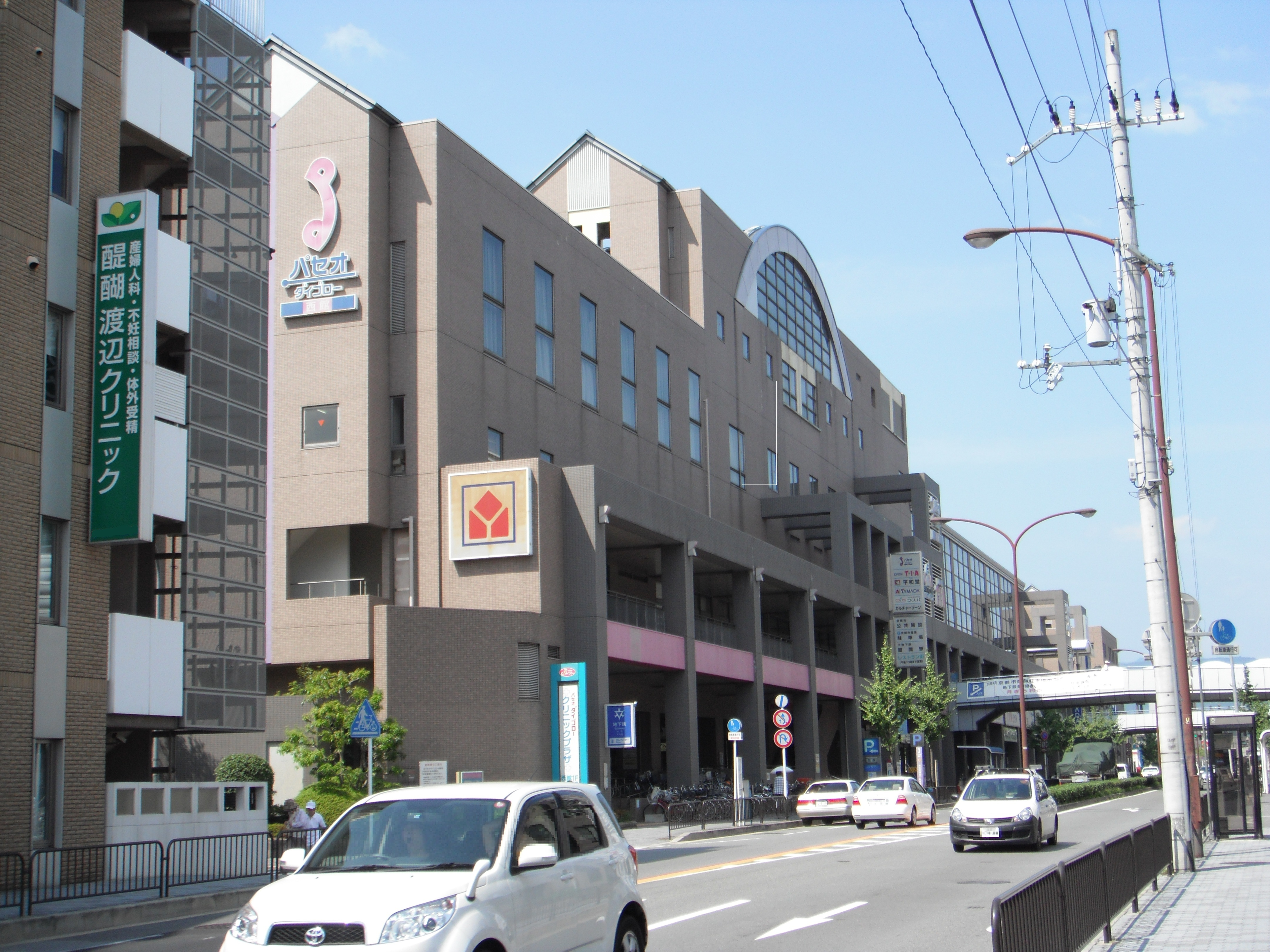 Paseo Daigoro West Building in Fushimi-ku, Kyoto